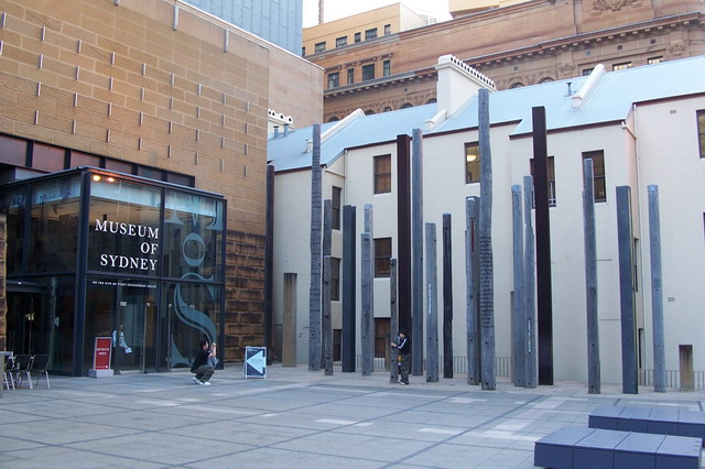 The main gate of Museum of Sydney, Cnr Bridge & Phillip Streets Circular Quay, Sydney